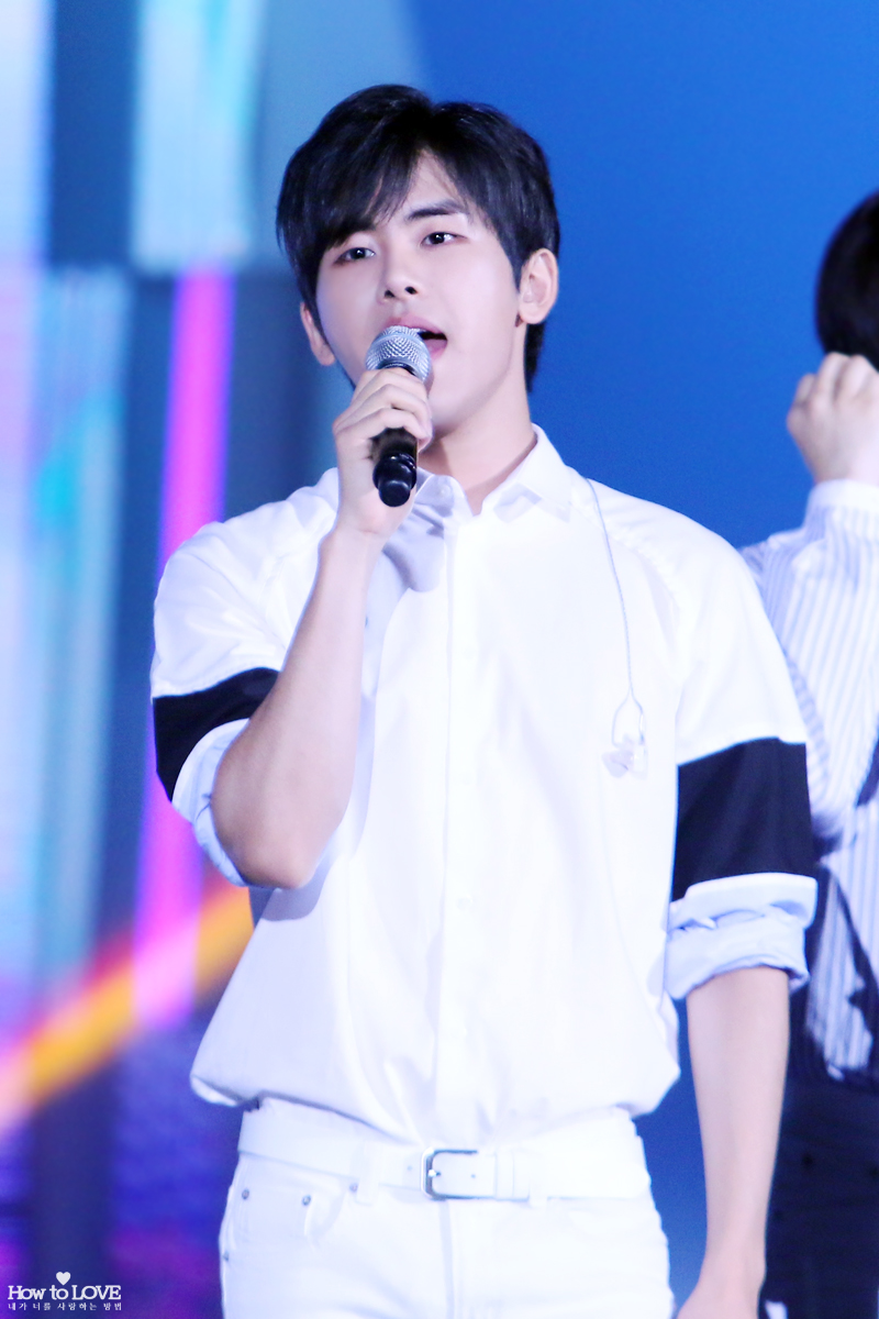 Infinite member Hoya performing at the DMZ Pyeonghwa Concert on August 14, 2015.